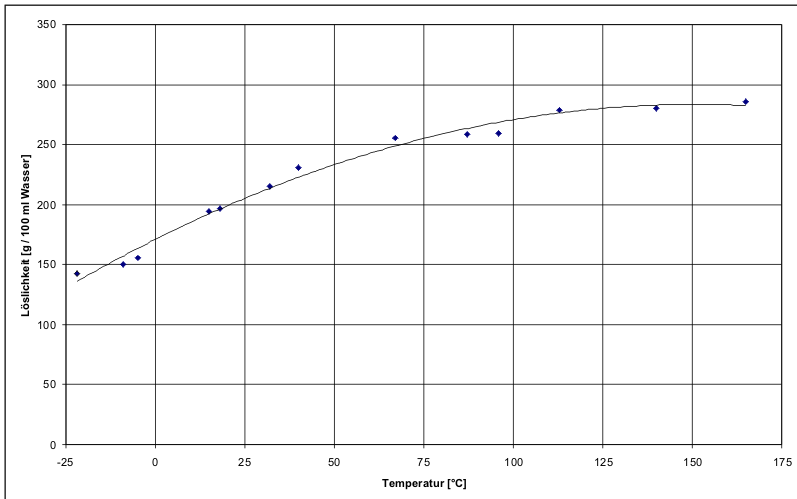 Solubility diagram of Barium iodide in water. Numeric data from: R. Abegg, F. Auerbach: "Handbuch der anorganischen Chemie", Verlag S. Hirzel, 1908, 2. Band, S. 256ff. [1]